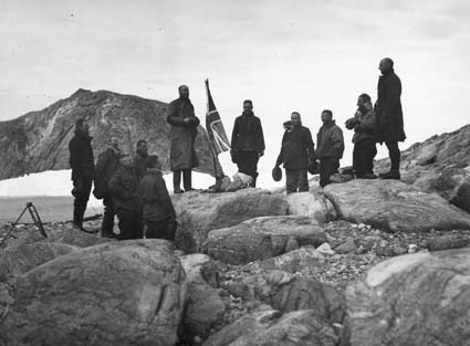 Douglas Mawson's team claim Mac. Robertson Land for the Crown during the BANZARE expedition.